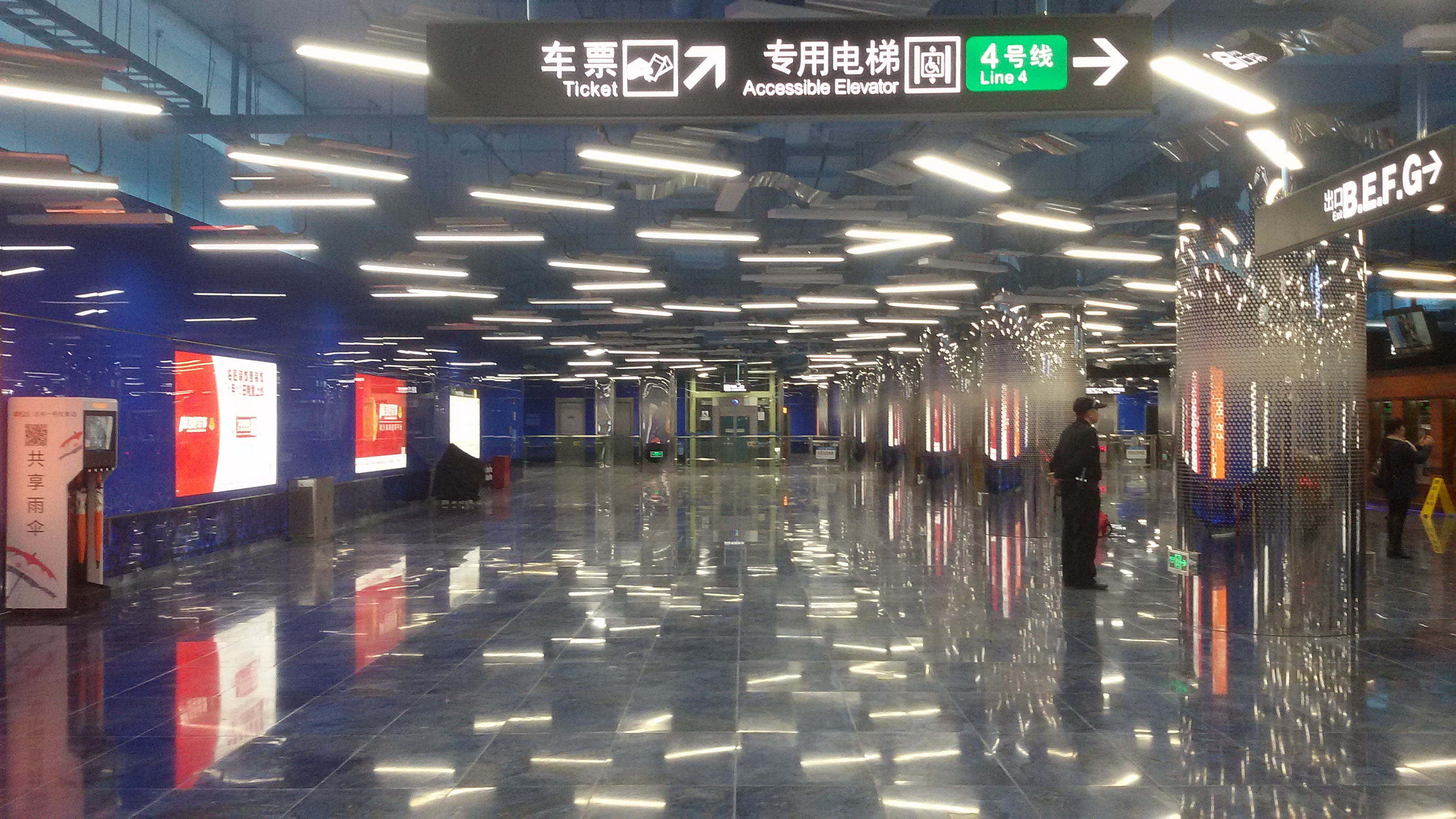 Station Concourse for Nansha Passenger Port Station in Guangzhou Metro.